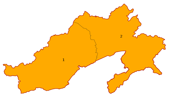 Result of Indian general election 2019 in Arunachal Pradesh